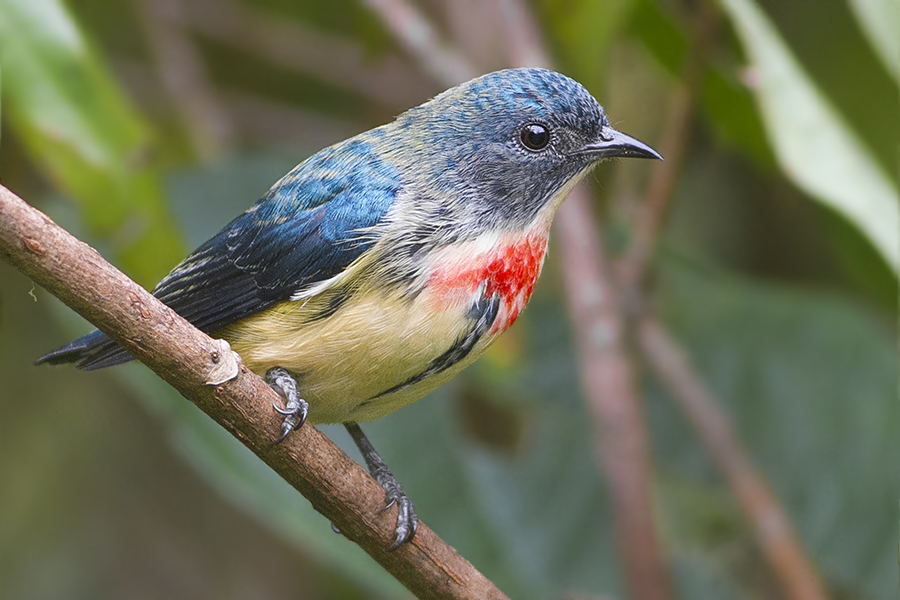 The species Fire-breasted Flowerpecker had been photographed during the birding trip of GoingWild from Khangchendzonga National Park in West Sikkim, Sikkim, India on 29.10.2015.